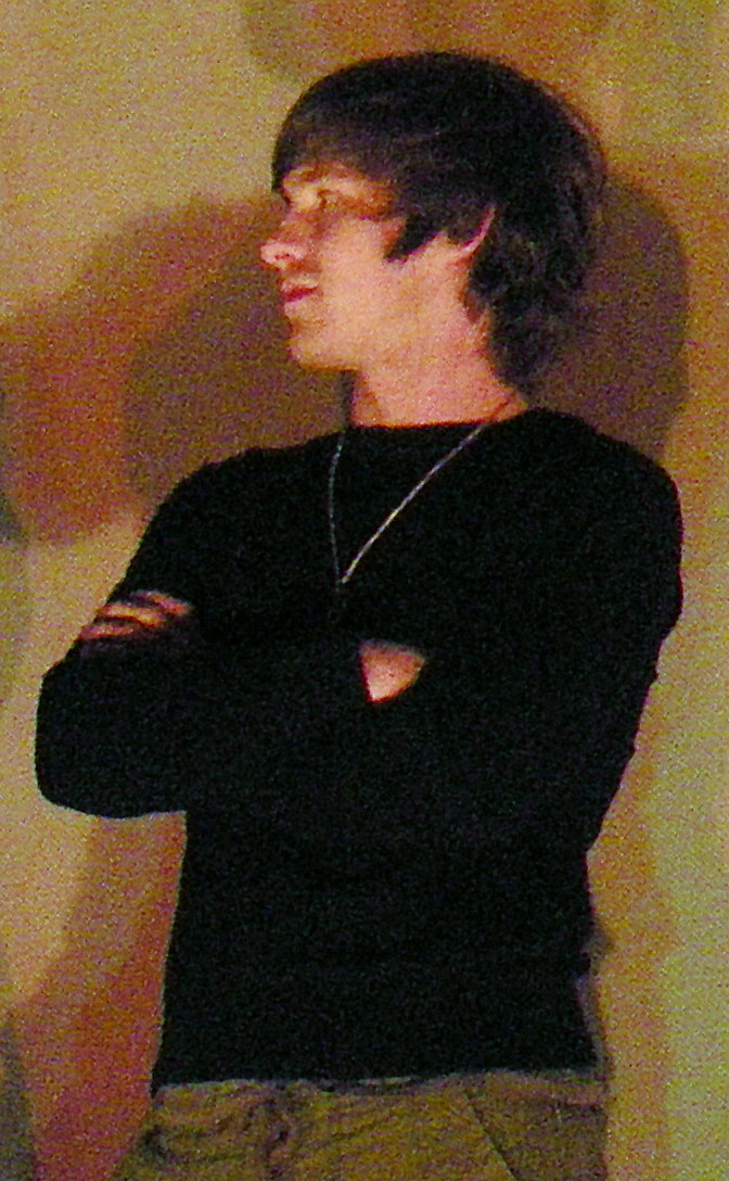 Actor Marshall Allman onstage after a showing of the film The Immaculate Conception of Little Dizzle, 2009 Seattle International Film Festival.